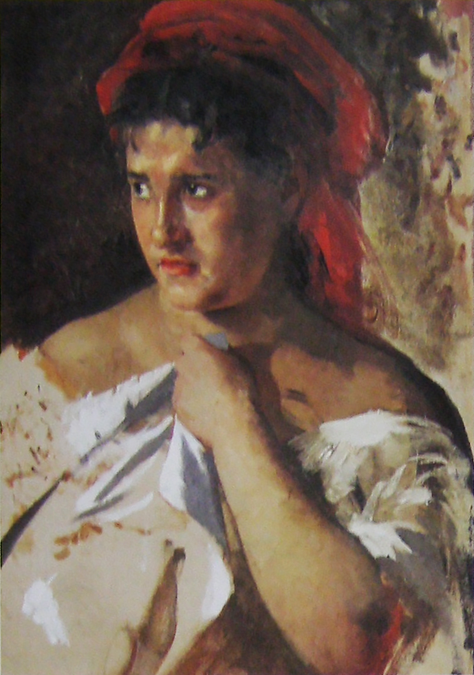 Study for "Christ and the woman taken in adultery"